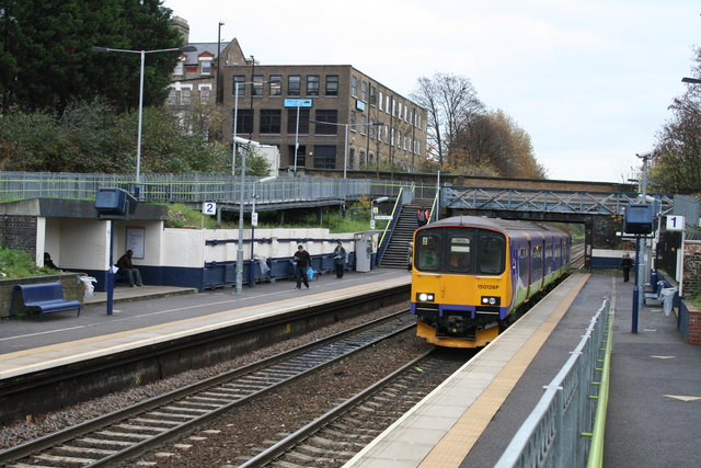 Upper Holloway station This station is on the London Overground Gospel Oak to Barking line. The Class 150 unit shown is headed towards the camera on its way to Gospel Oak. In the background is the station footbridge, out of use at present owing to poor condition, and behind that is the road bridge carrying Holloway Road. Half a mile's walk up this road to the left will bring you to Archway tube station on the Northern Line, or alternatively you could take a bus in the opposite direction on Routes 17 or 43 to London Bridge station.